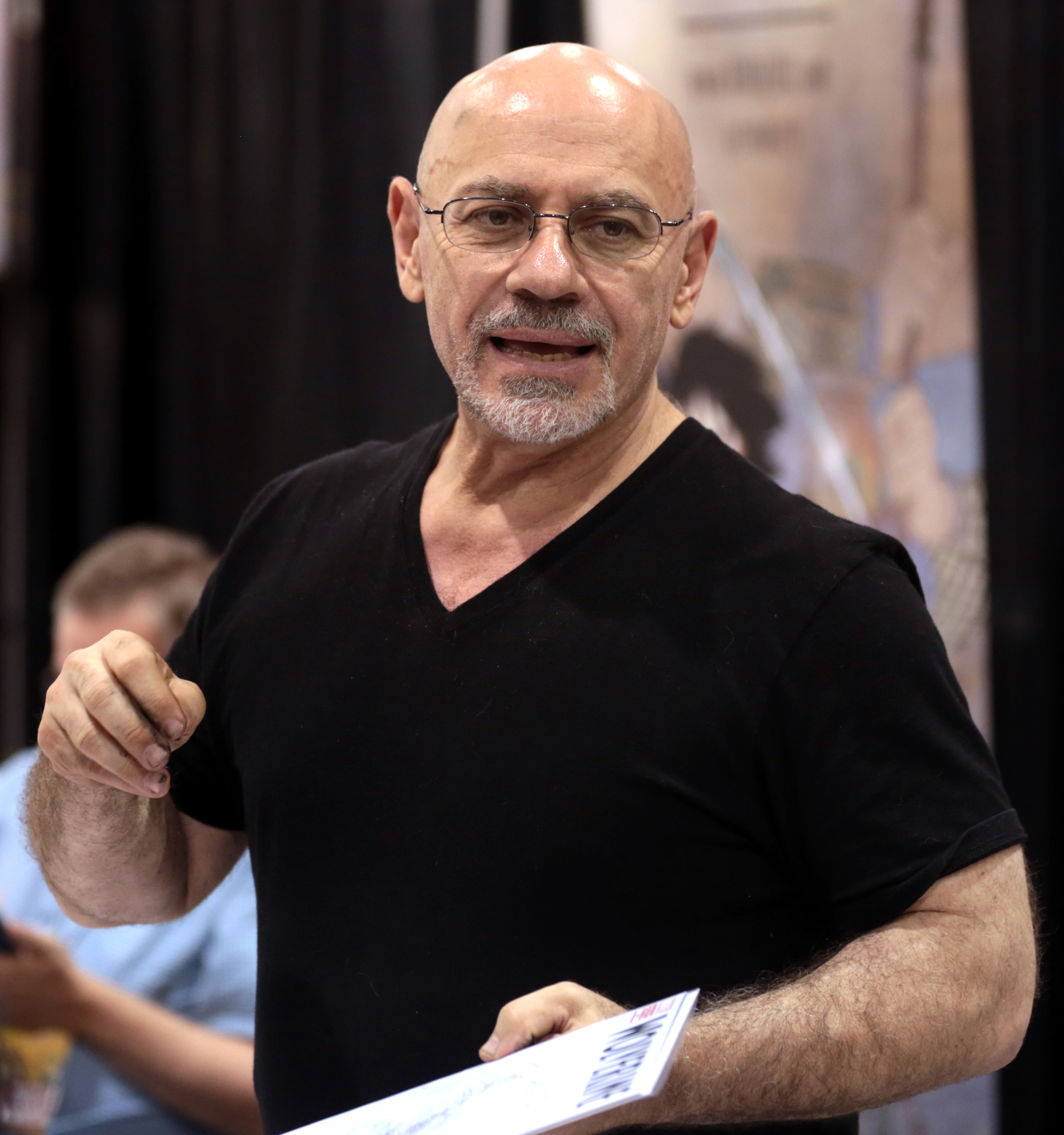 Joe Rubinstein speaking at the 2017 Phoenix Comicon in Phoenix, Arizona.